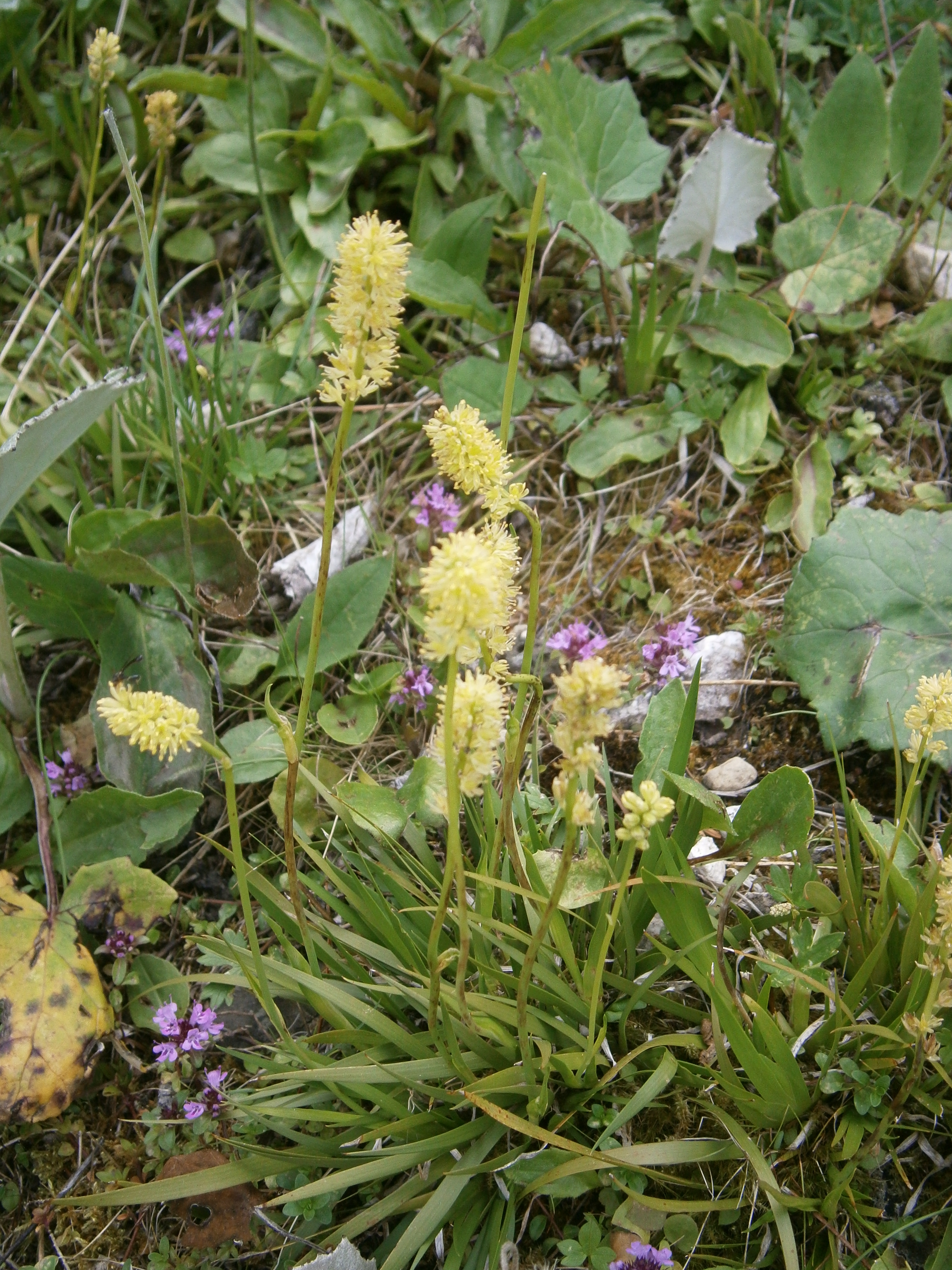 Tofieldia calyculata